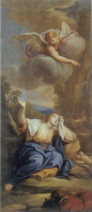 Hagar and Ismael